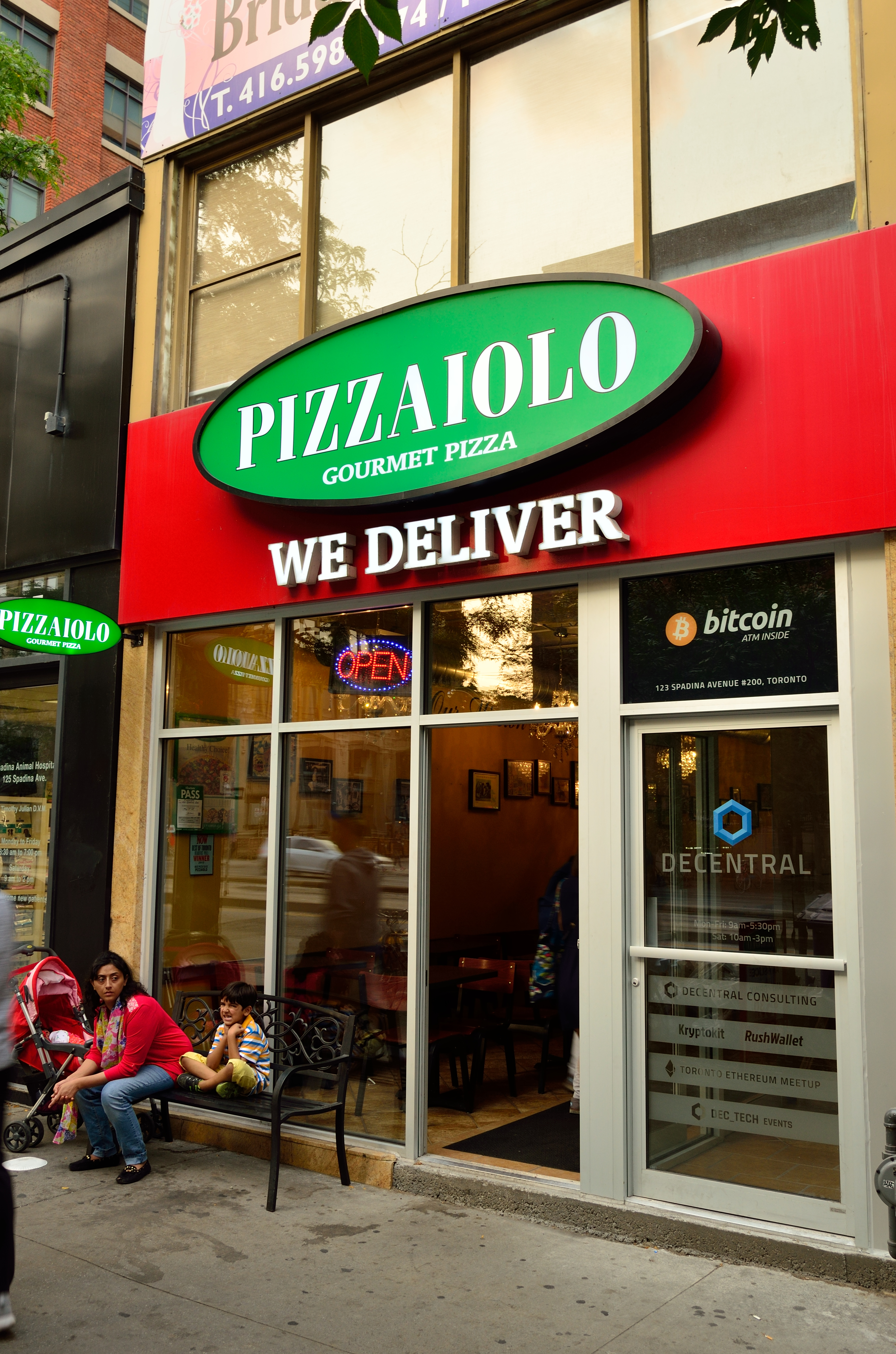 Pizzaiolo - 123 Spadina Ave, Toronto